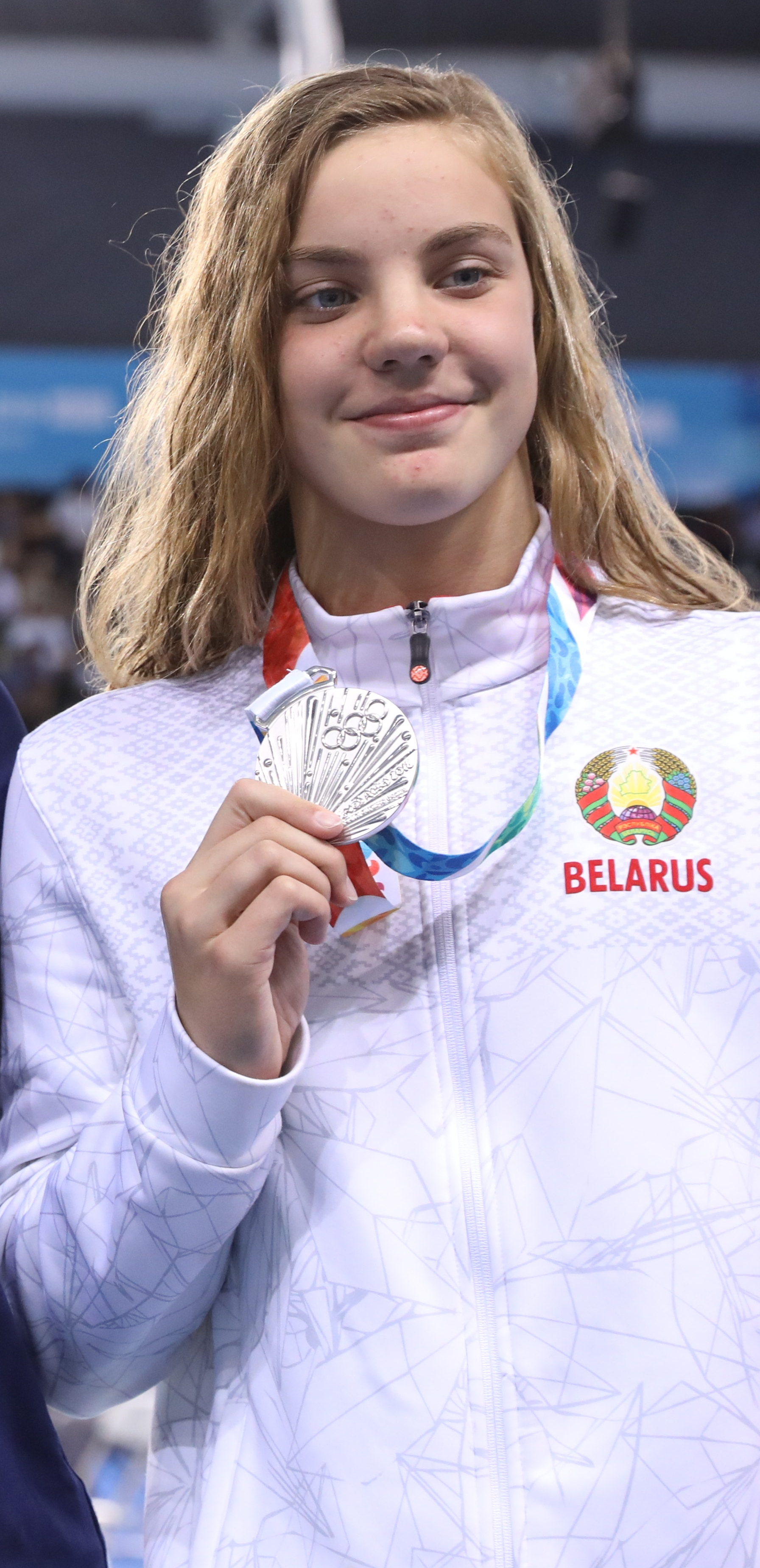 Girls' Swimming, 50 m Butterfly Final at the 2018 Summer Youth Olympics in Buenos Aires at the 10th October 2018